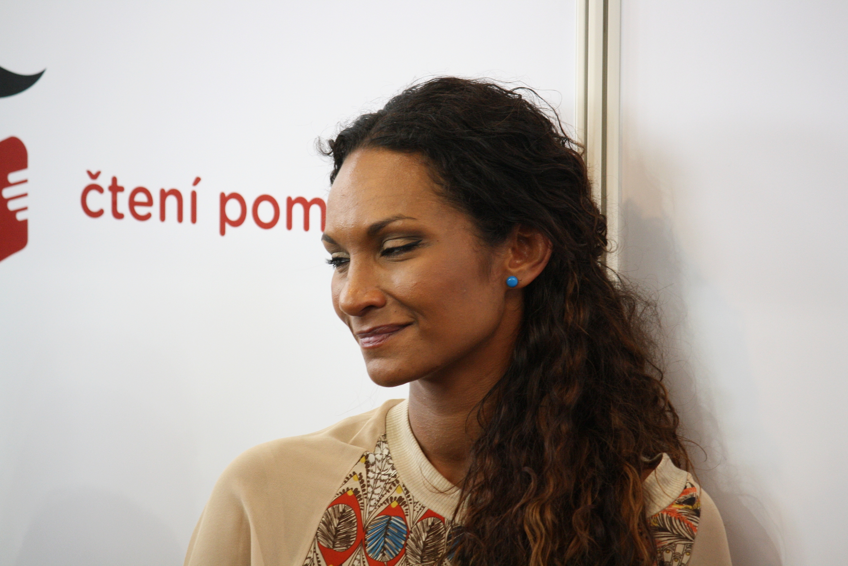 Česky: Svět knihy 2013 - Lejla Abbasová Personality rights warning This work depicts one or more identifiable persons. The use of depictions of living or deceased persons may be restricted by laws regarding personality rights. The extent of these restrictions depends on jurisdiction. Personality rights restrictions apply independently of copyright. Before using this content, please ensure that the intended use does not infringe any personality rights under applicable laws. You are solely responsible for ensuring that you do not infringe someone else's personality rights. See our general disclaimer.